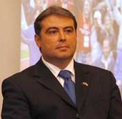 Romanian politician Adrian Cioroianu, cropped from Closing Ceremony of USAID Romania with Ambassador Taubman, Acting Director of Foreign Assistance and Acting USAID Administrator Fore, listening to Acting USAID/Romania Director Mosel during the formal celebration of the 1990 - 2007 Development Assistance Partnership between Romania and the U.S., October 9, 2007.